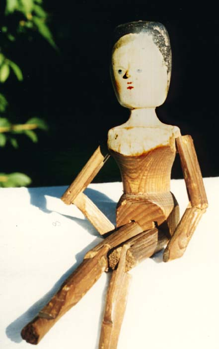 Stick doll or penny doll, in England called also dutch dolls from Val Gardena late 19th century.